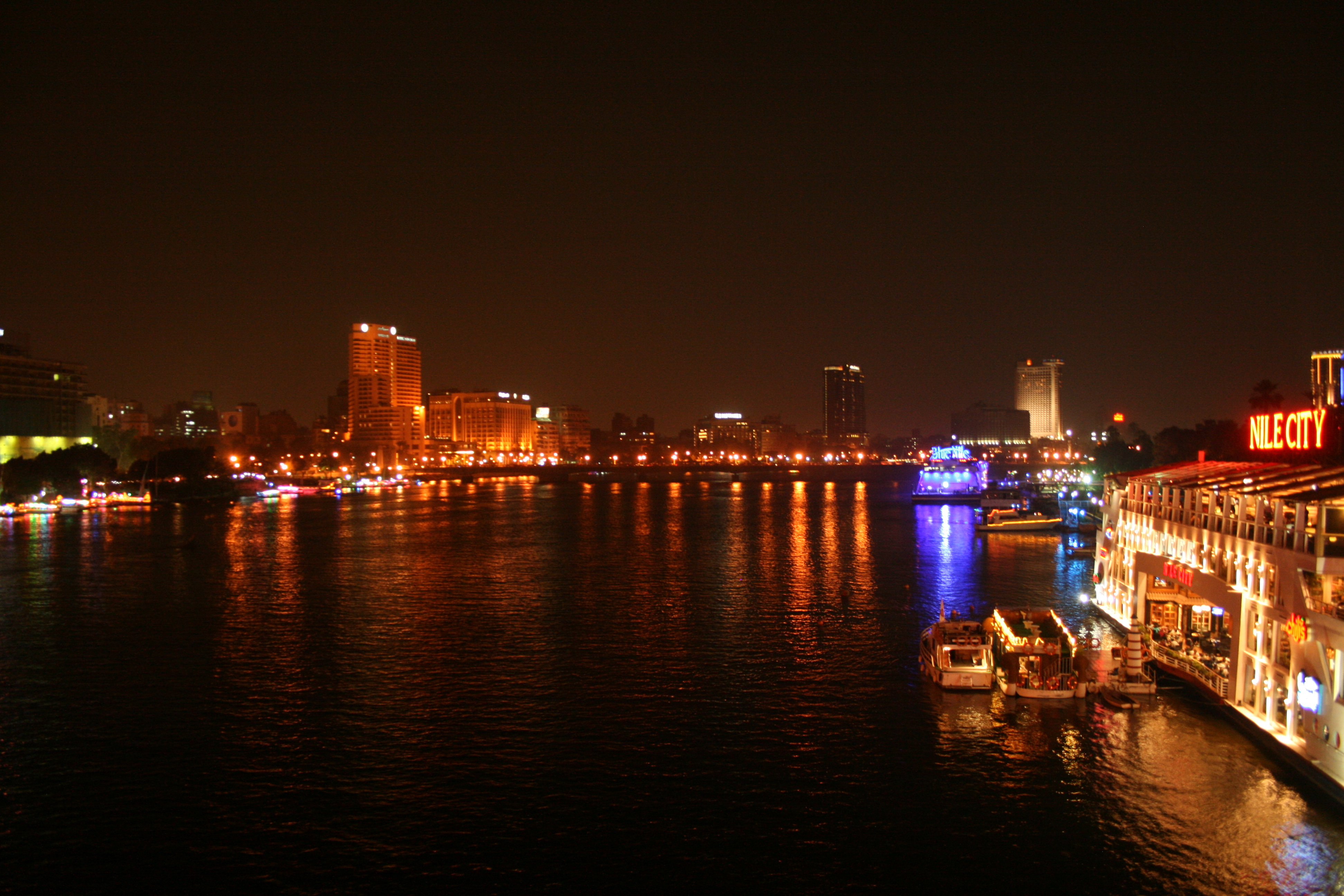 Nile River in Cairo, Egypt